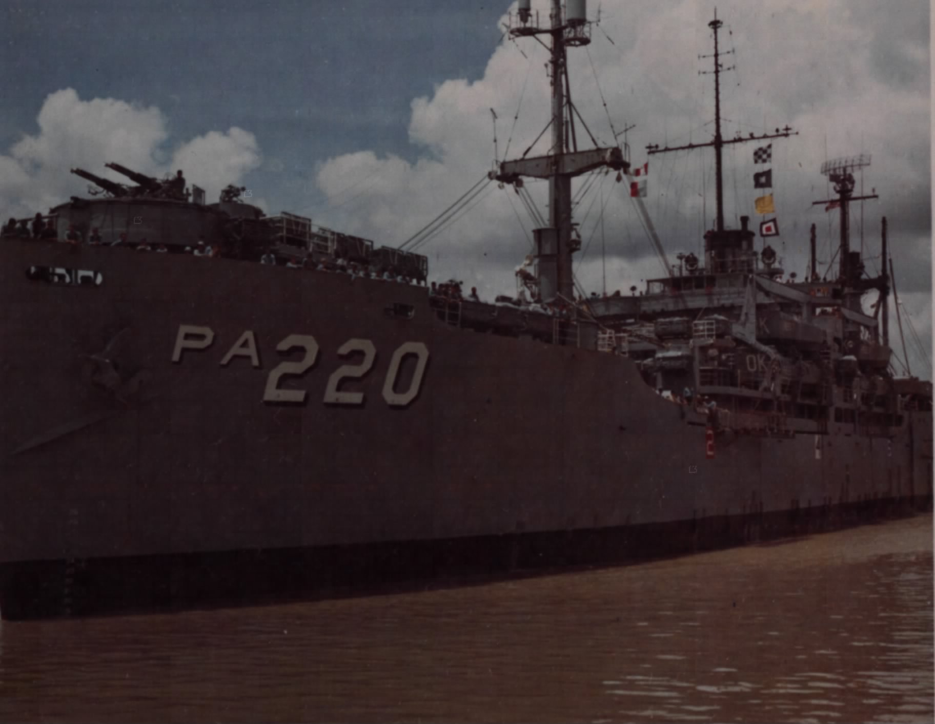 RTAVF ARRIVE IN VIETNAM. Fourteen hundred and fifty-seven members of the Black Panther Division of the Royal Thai Army Volunteer Force (RTAVF) arrive aboard the Assault Personnel Transport Auxilliary (APA) 220, USS Okanogan, at Dock DD2 Newport Harbor